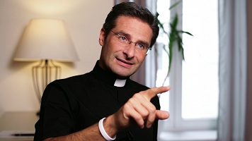 Krzysztof Charamsa coming-out in polish documentary Article 18, day before his coming-out in Vatican city.